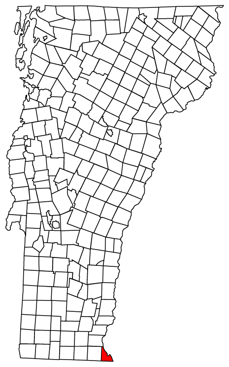 Description: Map of Vermont towns with Vernon highlighted Source: Map created by Jared C. Benedict on 26 March 2004. Copyright: © Jared C. Benedict.